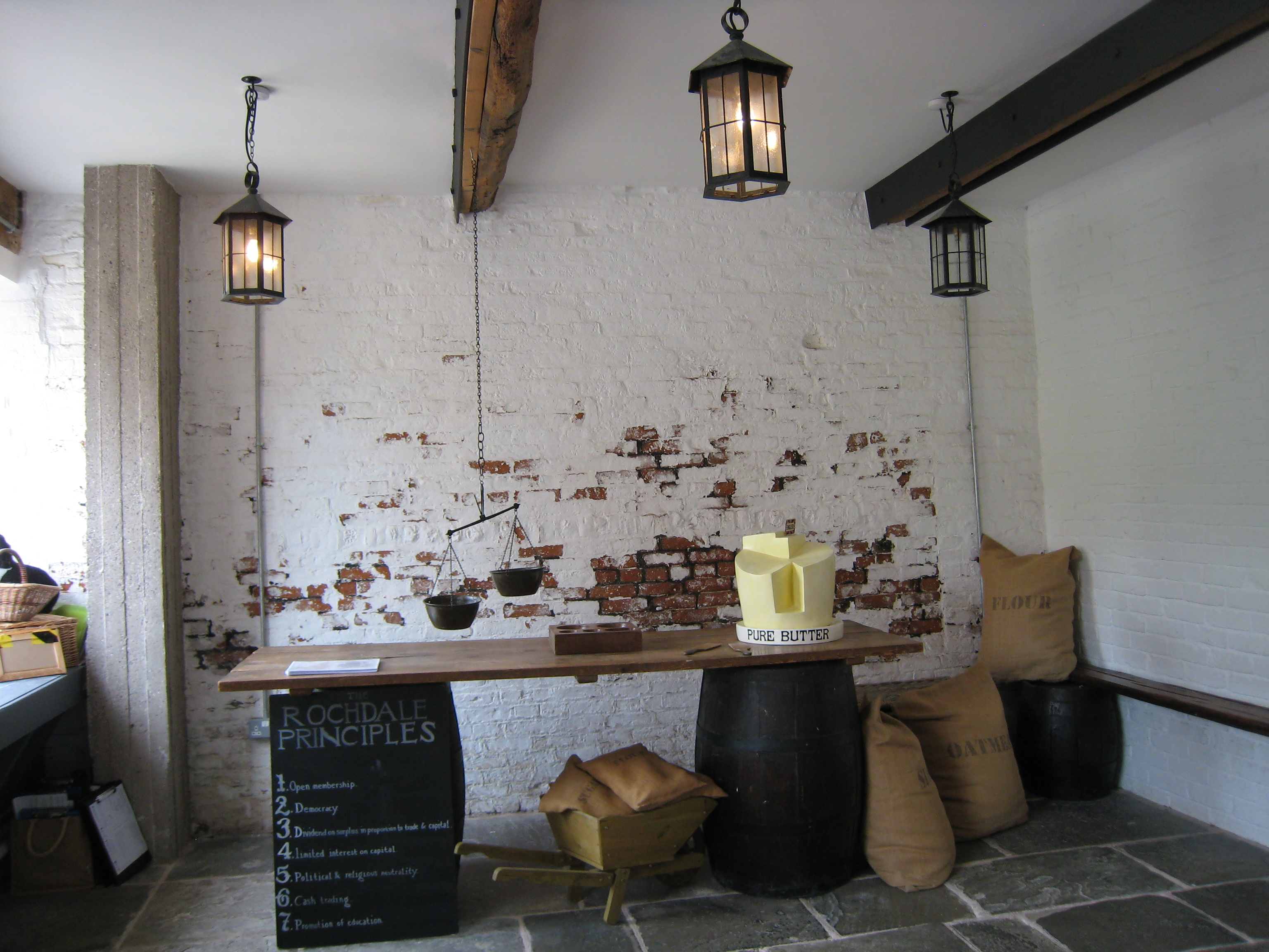 Rochdale Pioneers Museum, 31 Toad Lane, Rochdale. The interior of the original shop (1844) now the entry room of the museum.